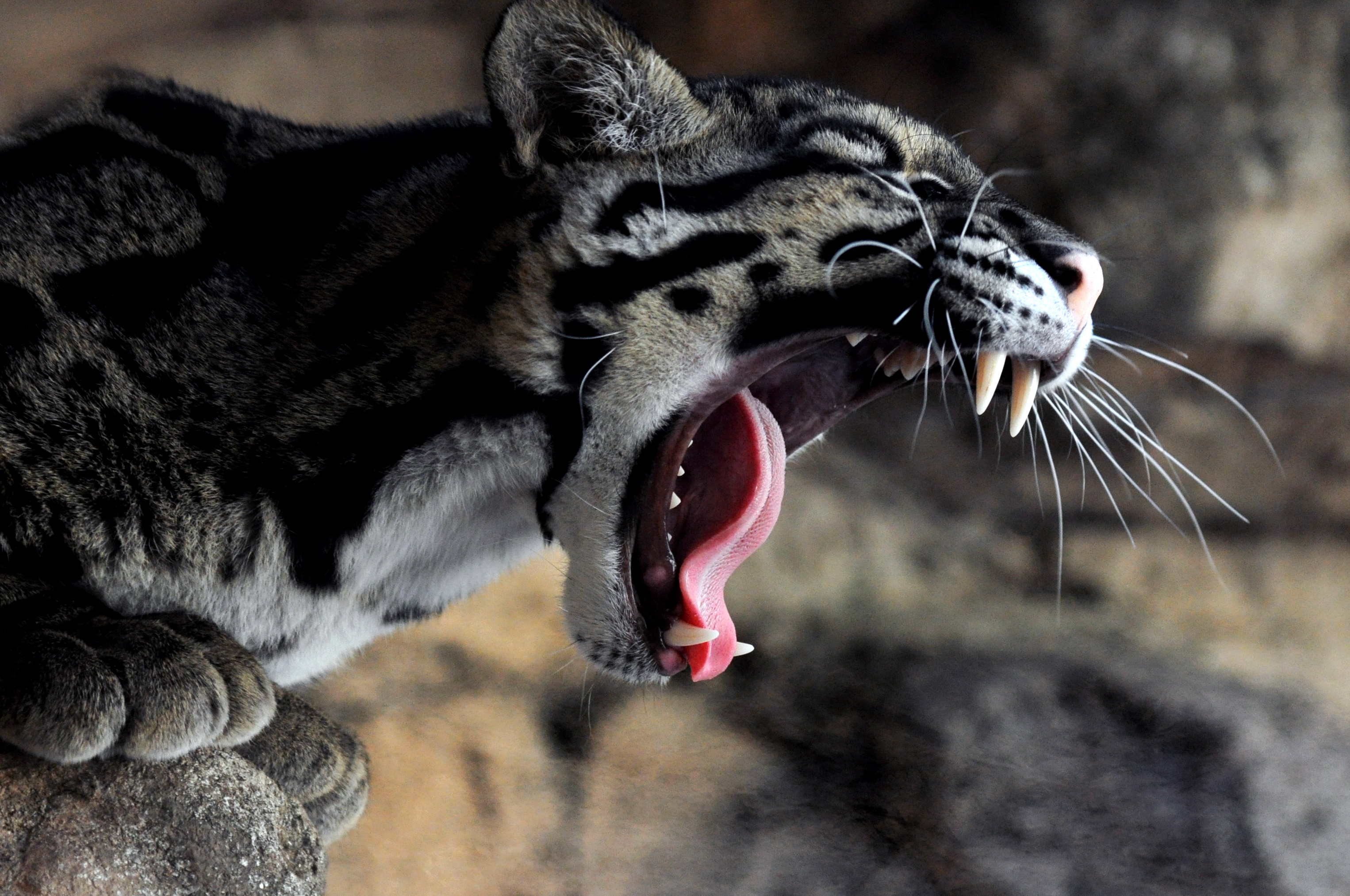 Clouded leopard in the San Antonio Zoo and Aquarium